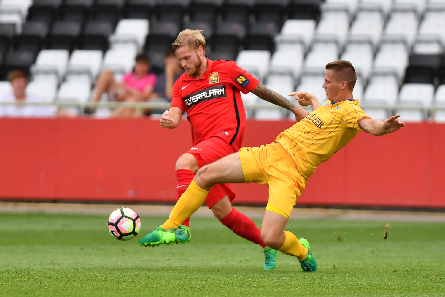 28/6/2017, Maria Enzersdorf, Austria, sports, soccer, Tipico Fussball Bundesliga - preparation match FC Flyeralarm Admira vs Gyirmot FC Gyoer. Image shows Marcel Holzmann (ADM).